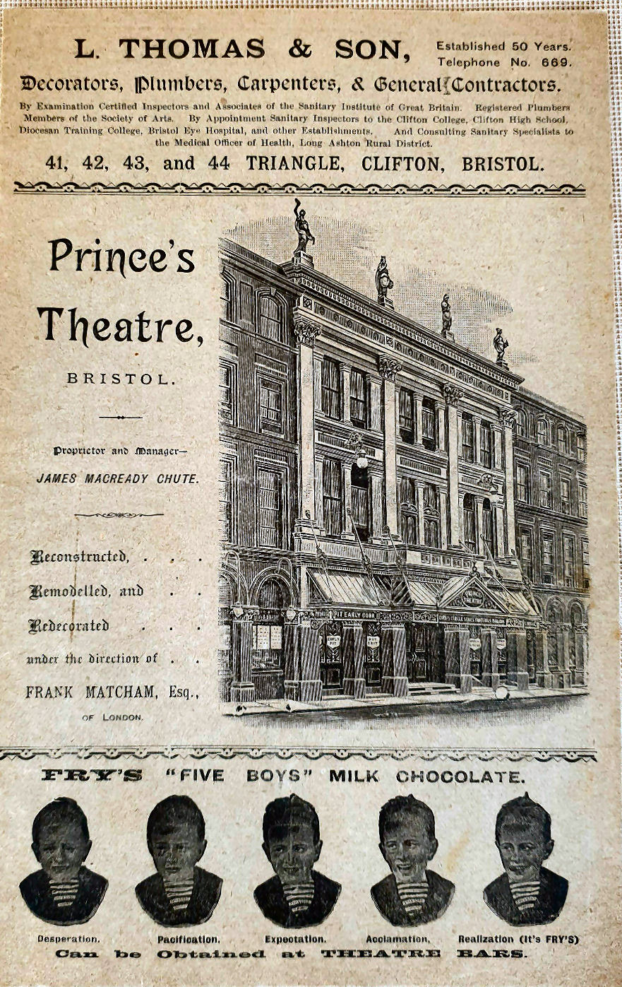 Programme for Frank Benson's production of 'Richard III' at the Prince's Theatre, Bristol in 1904